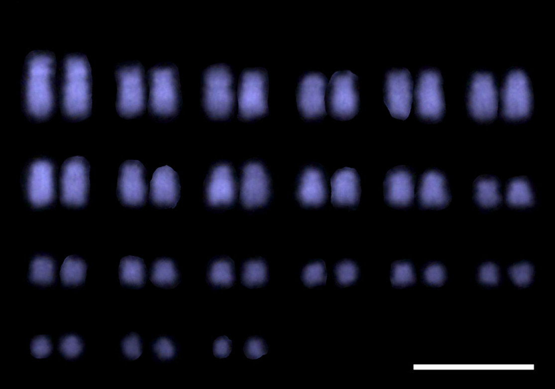 DAPI stained karotype of Aprasia parapulchella female, from a legless lizard found in Canberra. It shows 42 chromosomes with a XX no heterogeneous pair. Scale bar is 10 microns